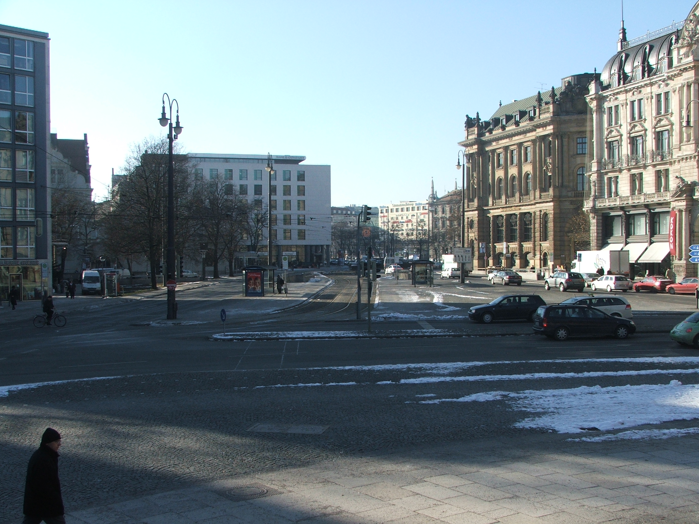 / Ratr: 100.0% (5 ratings)